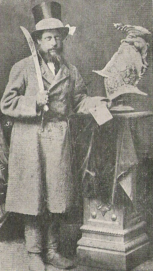 Photograph of John Evans ("Y Bardd Cocos") (1826-1888), reproduced in the volume Bardd Cocos by Alaw Ceris (Porthaethwy, 1923). "Bardd Cocos" was a Welsh-language "poet" famous - or notorious! - for his rhymes which are so bad they are brilliantly funny (although that was never the author's intention!).